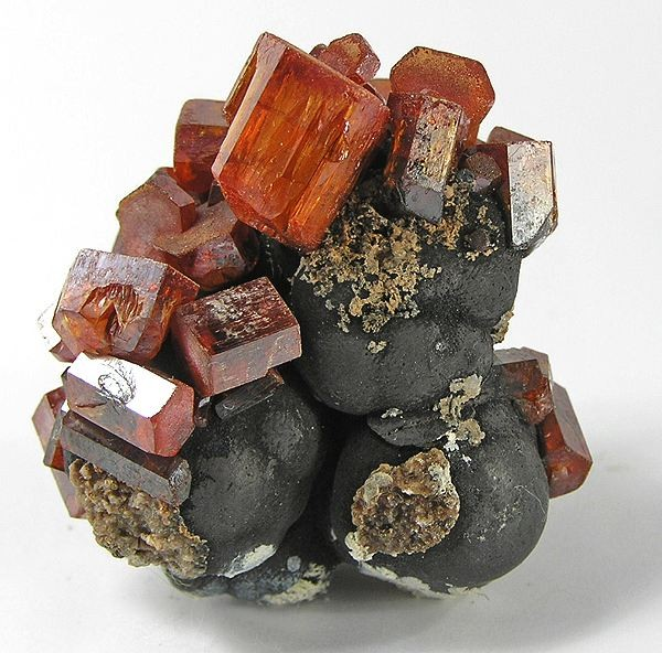 Vanadinite Locality: Taouz, Er Rachidia Province, Meknès-Tafilalet Region, Morocco (Locality at ) Size: 3.9 x 3.5 x 2.4 cm. You can see how these fine Taouz vanadinite crystals differ from the more common (and familiar) ones from Mibladen. They have orange tones and a beautiful shimmering, almost iridescent quality to them. Also, the black contrasting matrix is very distinctive and adds further beauty. These crystals measure to one centimeter.